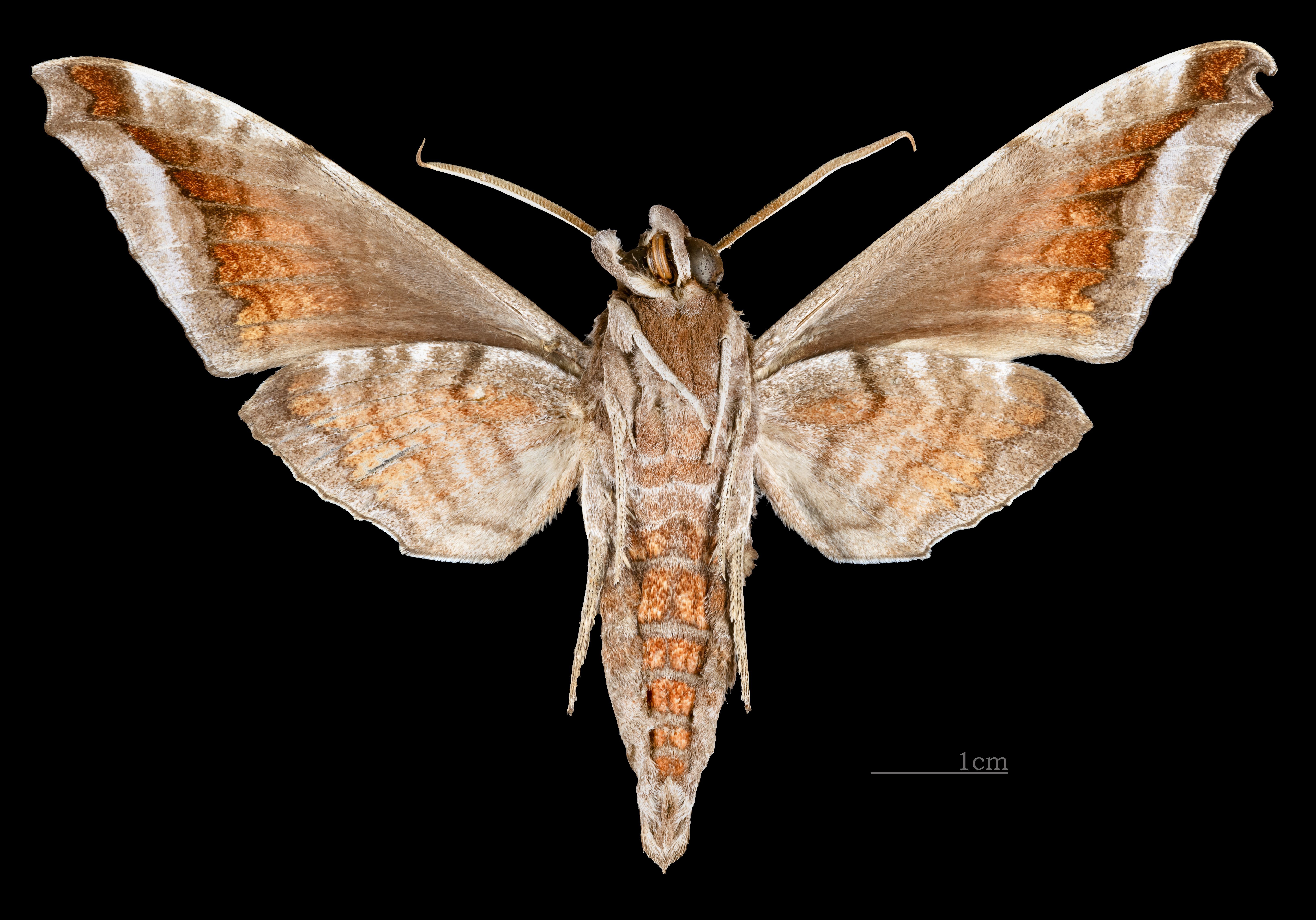 Acosmeryx naga - △ Ventral side Collection of the Mathematician Laurent Schwartz